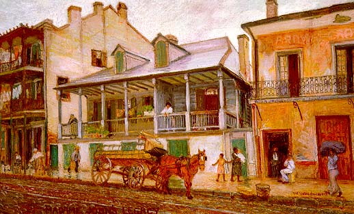 "Madame John's Legacy". Painting of view of historic "Madame John's Legacy" building French Quarter of New Orleans, about 1910, by artist William Woodward (1859-1939).